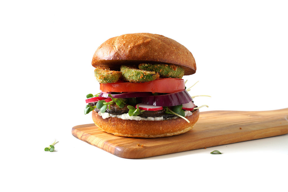 You are free to: Share — copy and redistribute the material in any medium or format Adapt — remix, transform, and build upon the material for any purpose, even commercially. You must give appropriate credit and provide a link to the home page.